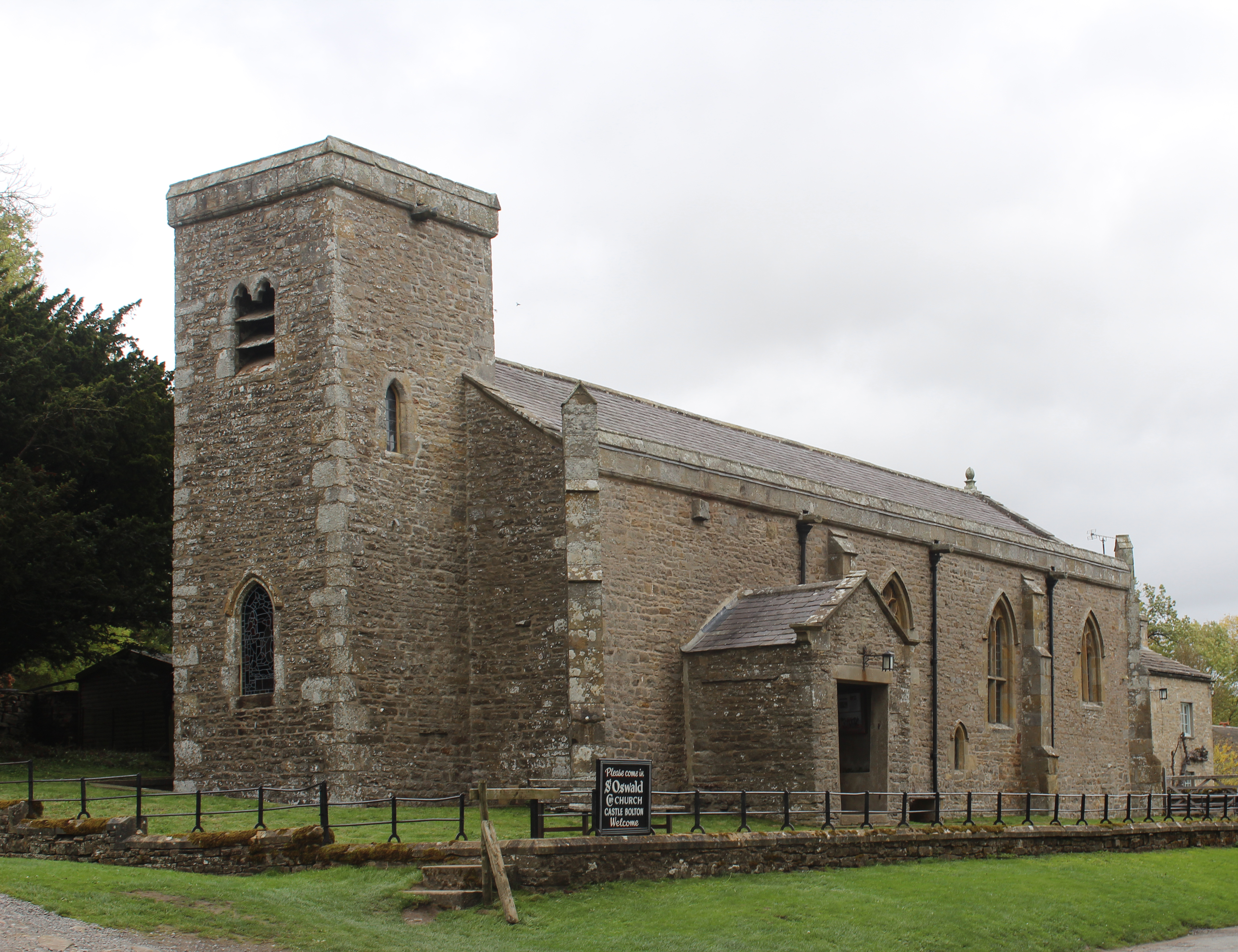 Church of St Oswald, Castle Bolton: a Grade II listed building dating from the late 14th Century. The church is adjacent to Bolton Castle.